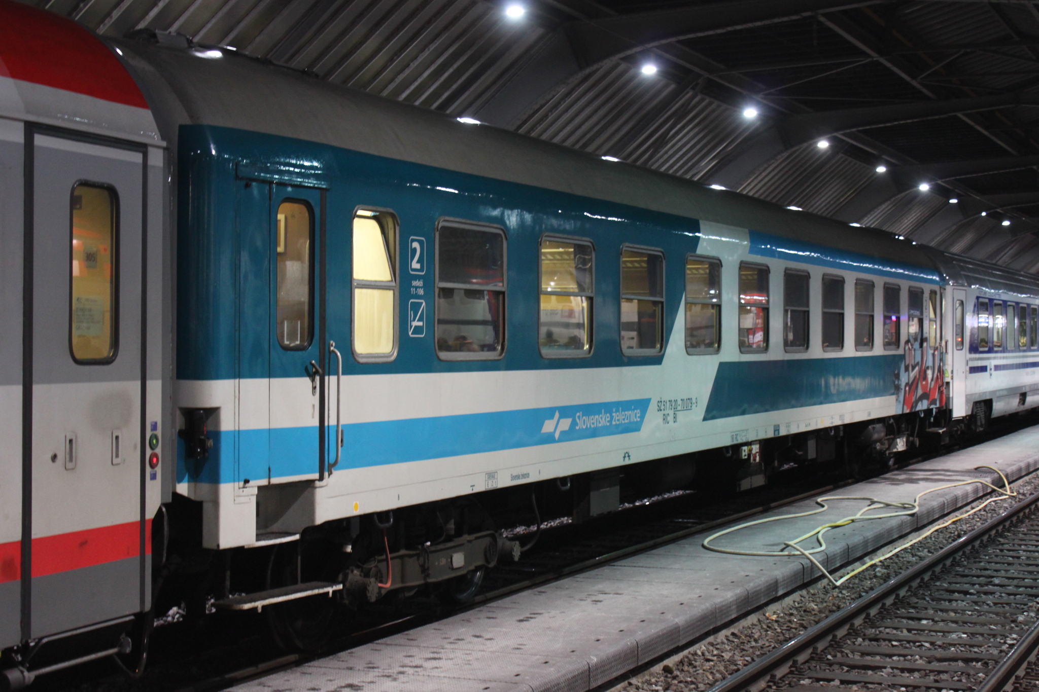 SŽ Bl 51 79 20-70 079-9 in the consist of EuroNight 465 "Zürichsee" (as replacement through coach to Beograd) at Zürich HB.